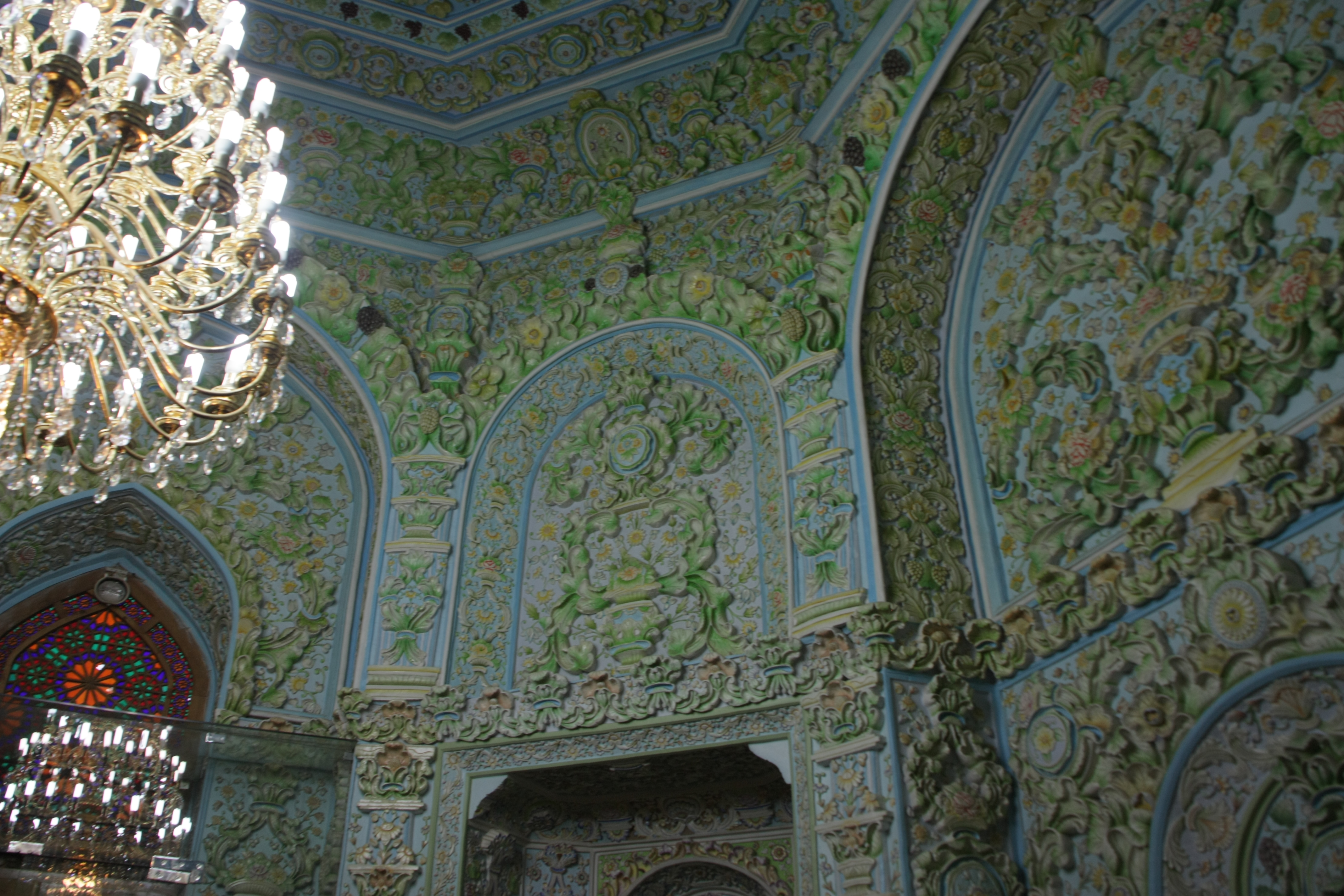 An internal room